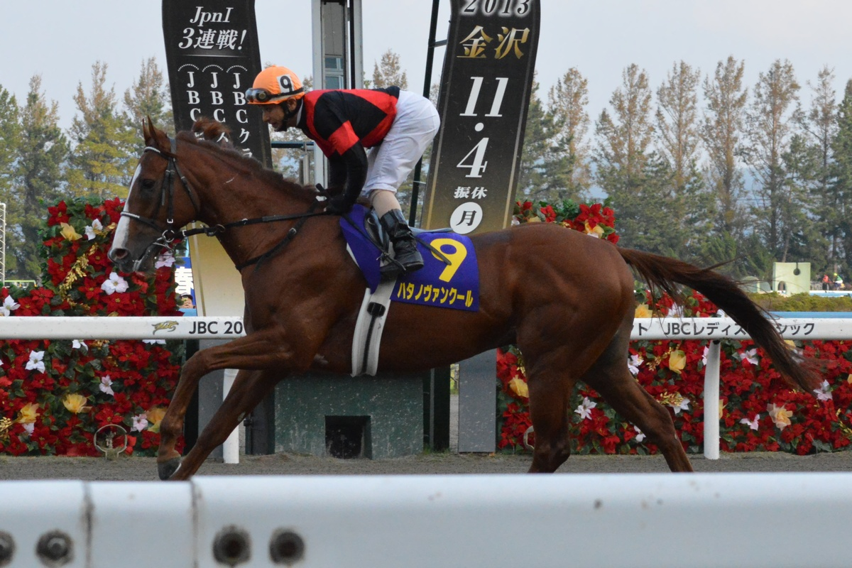 Japanese race horse Hatano Vainqueur at Kanazawa racecourse. Kanazawa (JPN) 04 Nov 2013 JBC Classic (Local Grade 1) (Dirt) (3yo+) (1m2f110y) Sloppy RankHorse NameOddsAgeWgtTrainerJockey1stHokko Tarumae (JPN)2/5FC49-0Katsuichi NishiuraHideaki Miyuki2ndWonder Acute (JPN)31/10H79-0Masao SatoYutaka Take3rdSolitary King (JPN)139/10H69-0Sei IshizakaYuichi Fukunaga4th - 10th/omission11thHatano Vainqueur (JPN)6/1C49-0Mitsugu KonHirofumi Shii